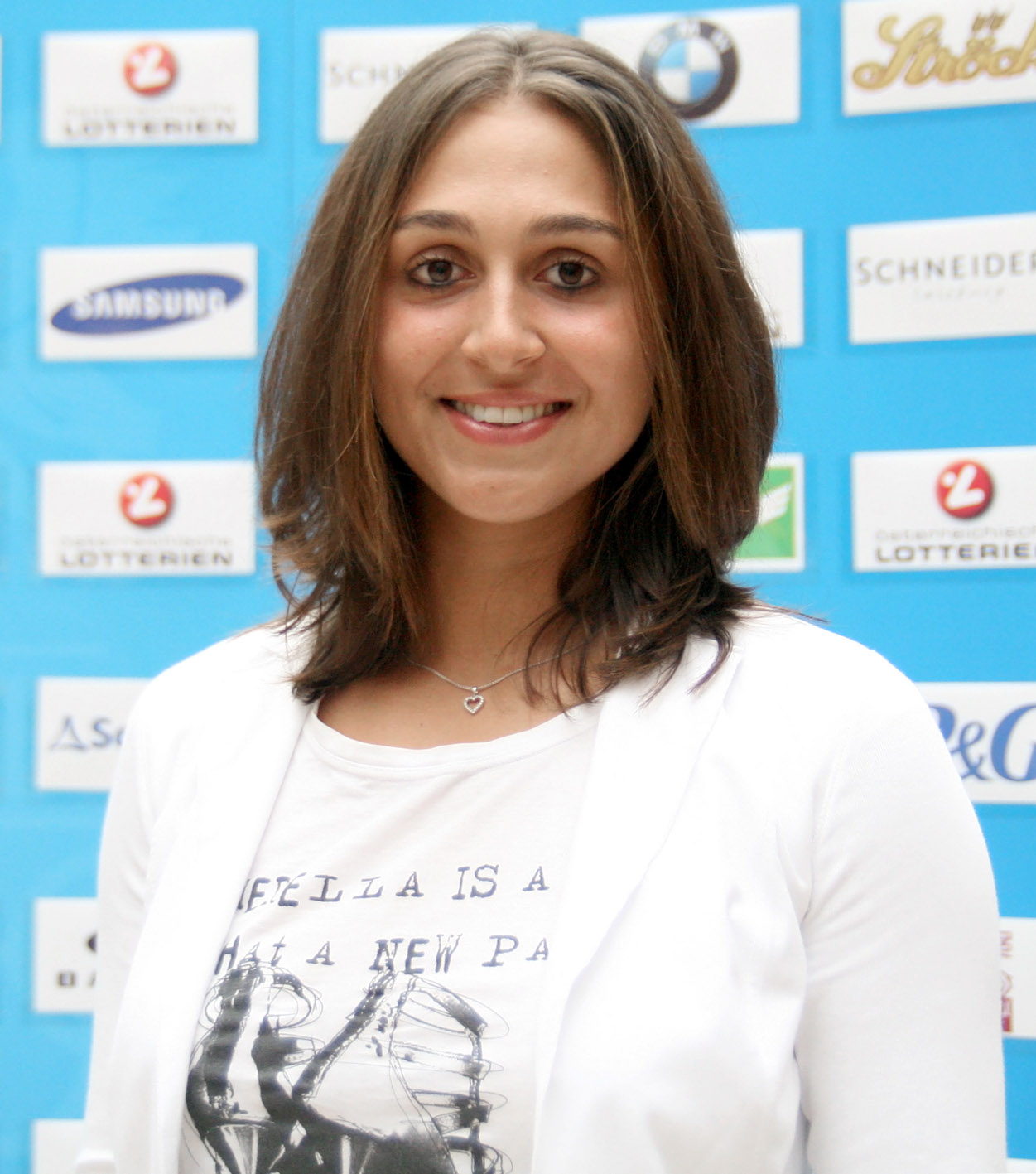 Tennis player Tamira Paszek at the hand-out of the Austrian teams official attire for the 2012 Summer Olympics in London (Marriott, Vienna).